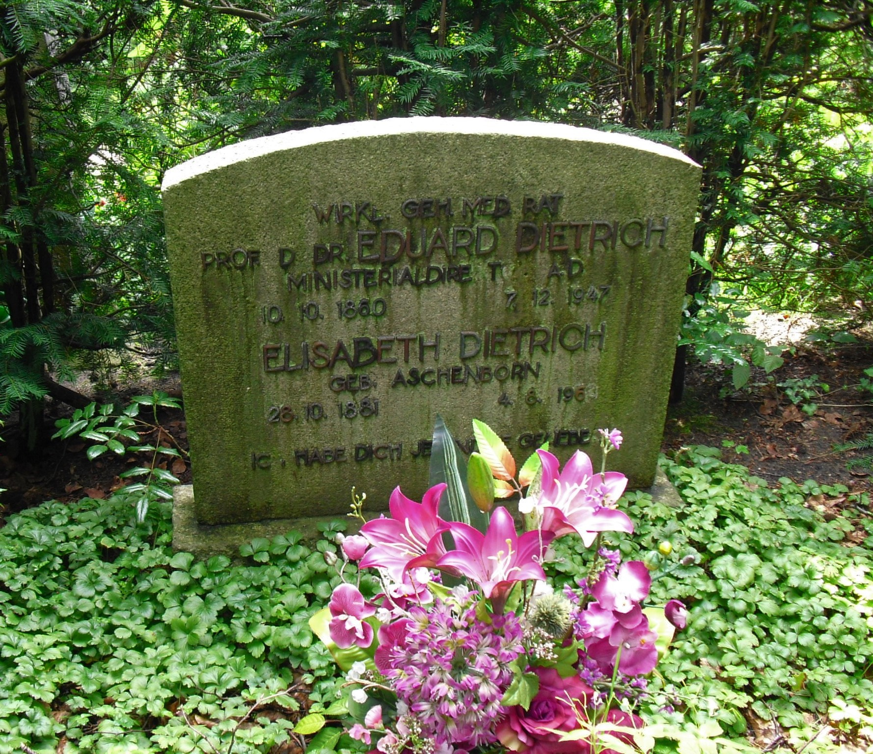 Grave of German physician Eduard Dietrich in Berlin, Friedhof Lichterfelde.